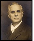 IZT Morris founder of Texas Children's Home and Aid Society, later named the Gladney Center for Adoption